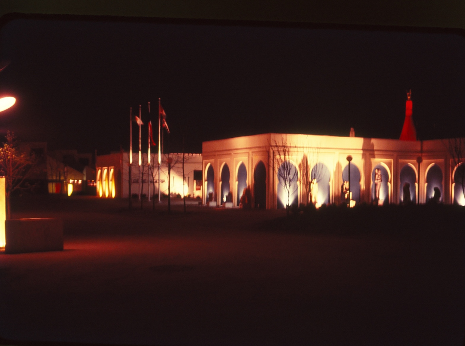 Expo 67, Notre-Dame Island at night, pavilions of Algeria and United Arab Republic (Egypt). Montréal, Québec, Canada.